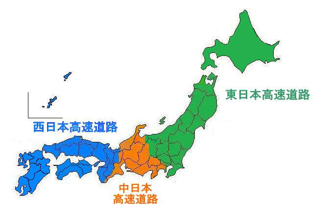 Japan Highway Company Area MAP.